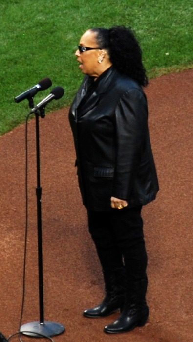 American actress and singer Roz Ryan singing the National Anthem at New York's Citi Field